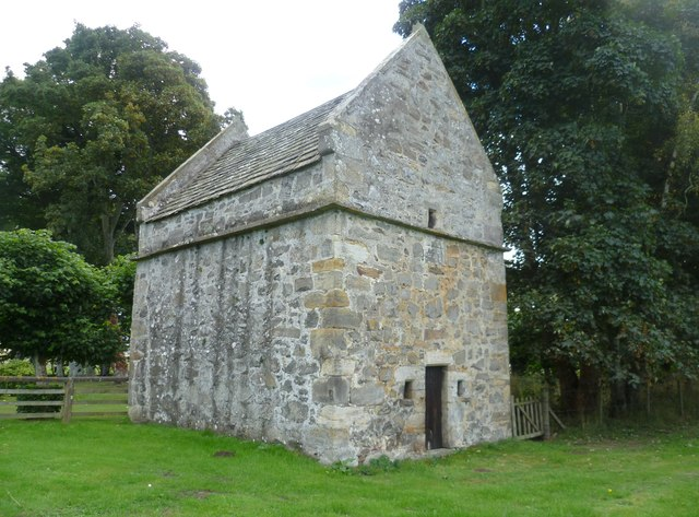 Earlshall Castle doocot